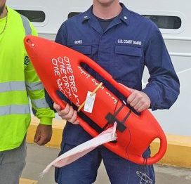 Original caption: "Local free diver receives his dive float from Coast Guard crew last Feb. 5, 2020 in Honolulu. Because of the diver reported the float missing, the U.S. Coast Guard was able to save valuable resources, unneeded search efforts, and was able to return the dive float. (U.S. Coast Guard)"